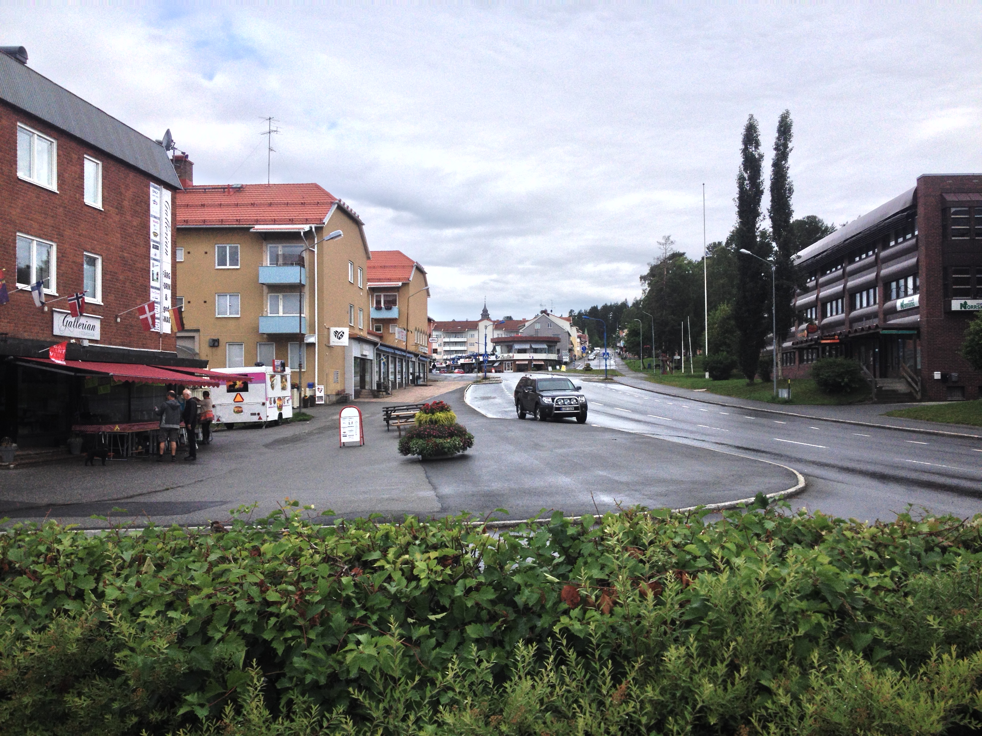 This is a photo of the main street running through the main shopping area of Vilhelmina, Sweden. The photo was taken on August 8, 2015 at 9:32 AM. In the distance the clock tower of Vilhelmina's church is visible.